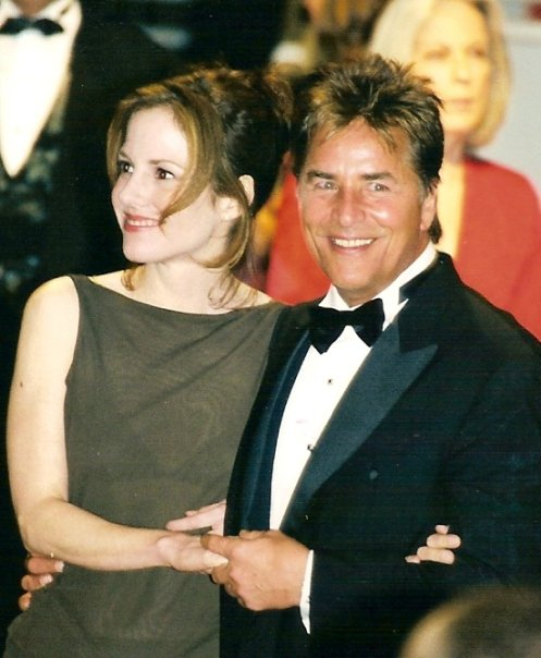 Don Johnson at the Cannes film festival